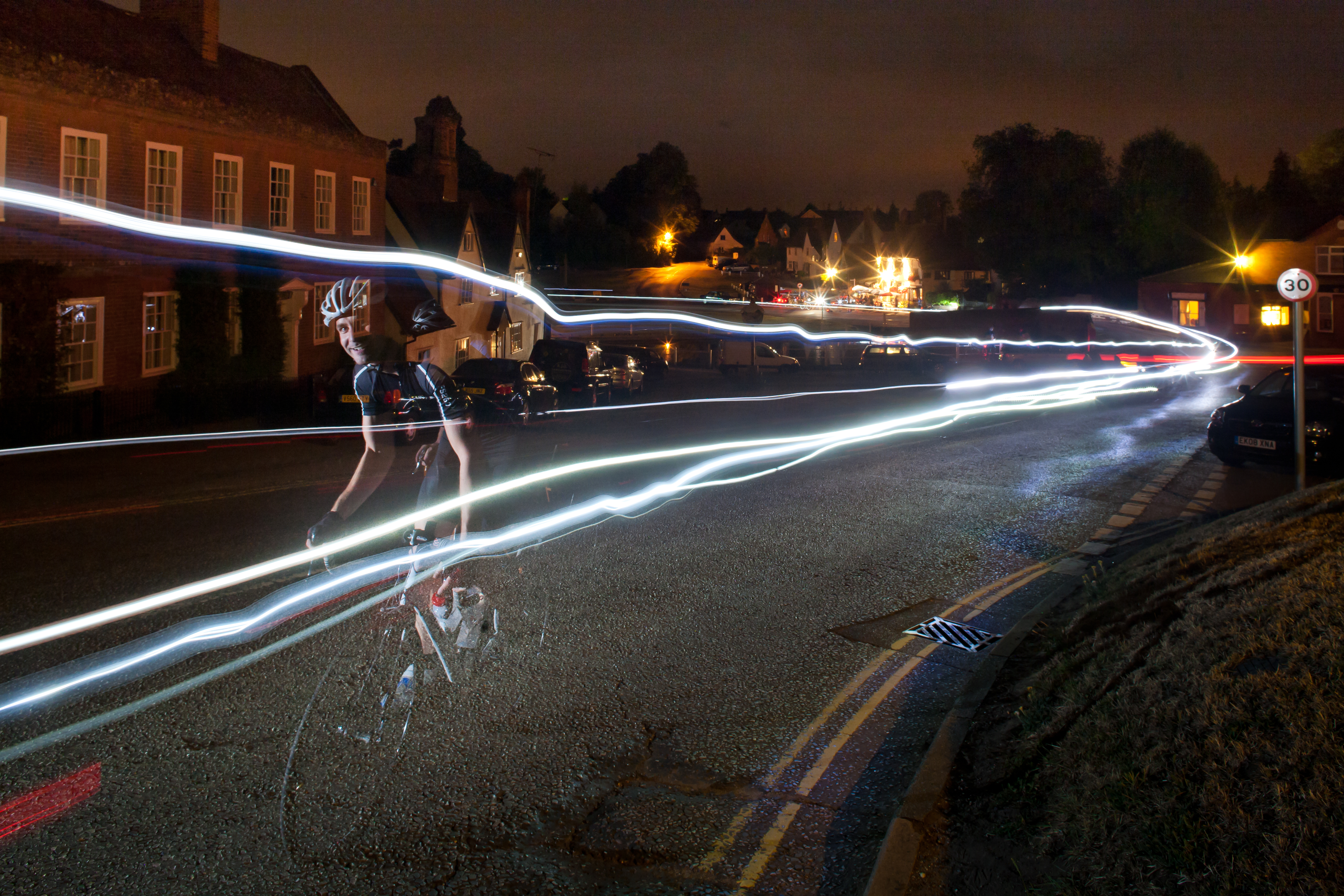 A cyclist in passing through Finchingfield during the Dunwich Dynamo 2010